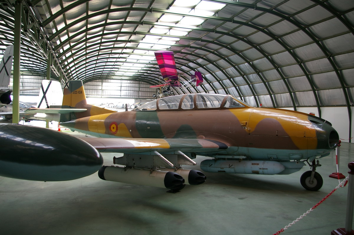 Hispano Aviacion HA-220D Super Saeta Register A.10C-104 last fuselage number 22-109(Ex C.10C-104). Image taken at Museo del Aire in Cuatro Vientos Air Base, Madrid, Spain